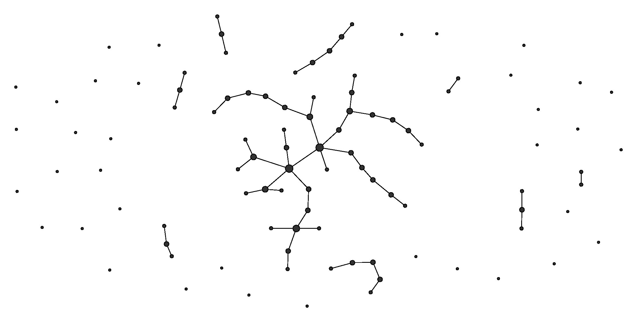 A network generated by the binomial model of Erdos and Renyi with p=0.01